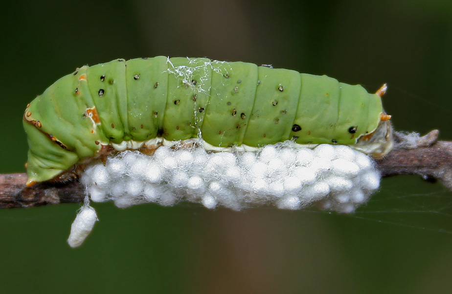 Braconid parasitoid wasp Apanteles sp. cocoons & Lime Butterfly 'Papilio demoleus caterpillar at Ananthagiri Hills, in Rangareddy district of Andhra Pradesh, India. The holes trough which the wasp larve left the caterpillar are clearly visible. The white cocoons of the wasp contain their pupae.